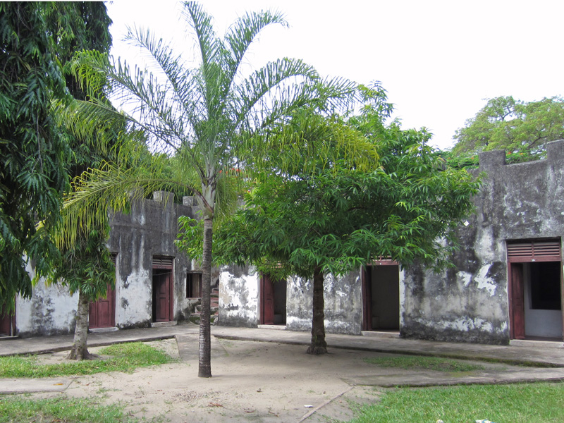 German garrison in Bagamoyo